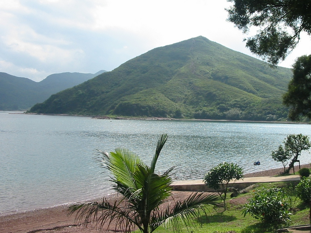 由往灣洲外展基地眺望往灣西頂 Wong Wan Chau (往灣洲) aka. Double Island, an island of North District, Hong Kong. View of Wong Wai Sai Teng (往灣西頂), a 136m high hill, across Wong Wan (往灣) bay. Picture taken from nearby the jetty of the Outward Bound adventure base (香港外展訓練學校).[1]